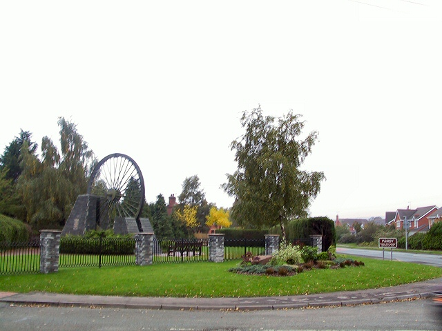 Gresford Memorial. This pithead wheel memorial at Pandy was unveiled by HRH the Prince of Wales in 1982. It commemorates the 266 miners killed in the disaster at Gresford Colliery in 1934.